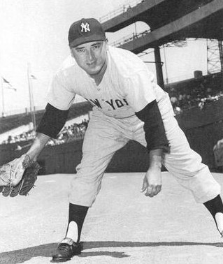 Professional baseball player Luis Arroyo